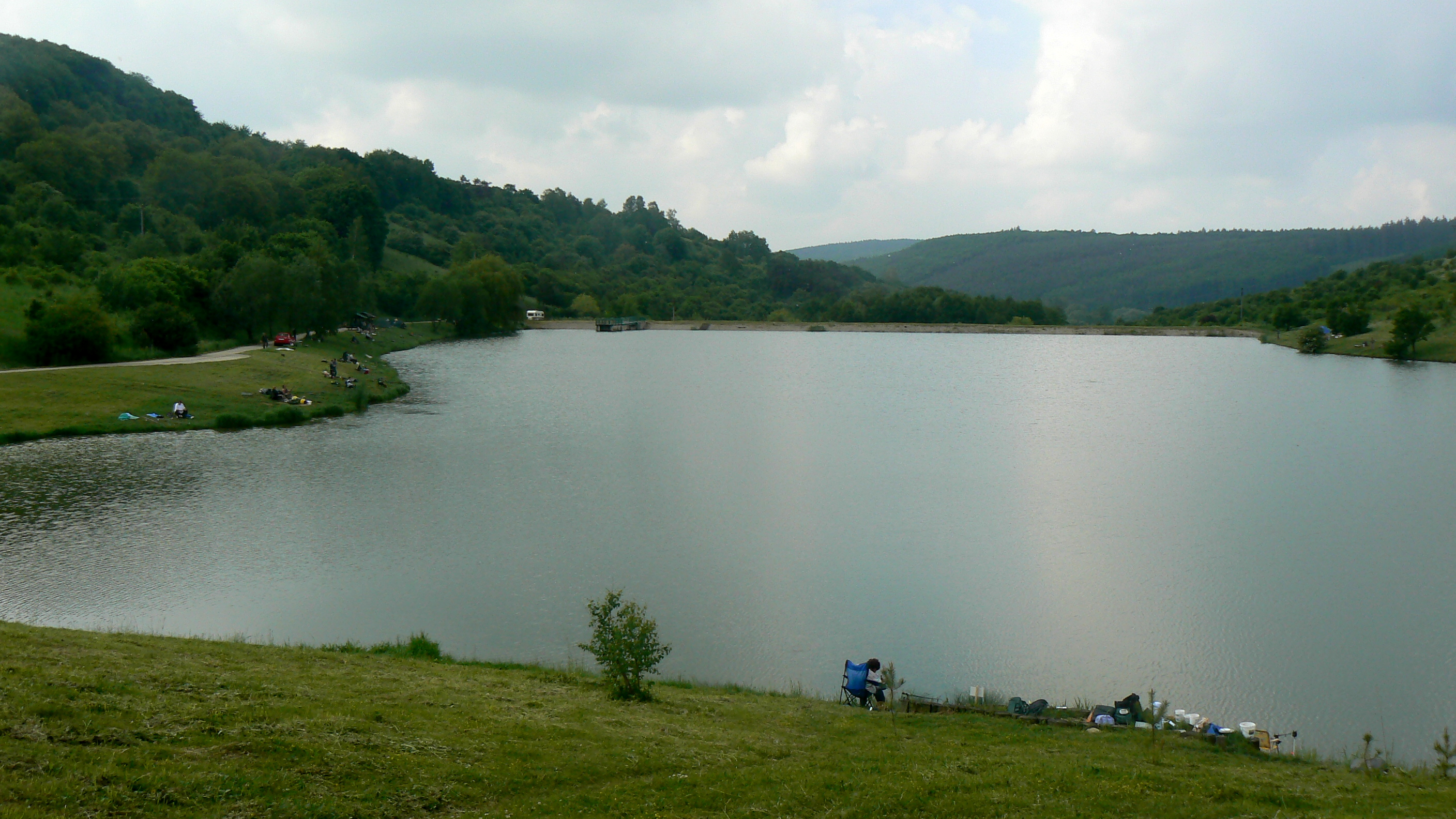 Reservoir in Jestřabice. Koryčany, Kroměříž District, Czech Republic